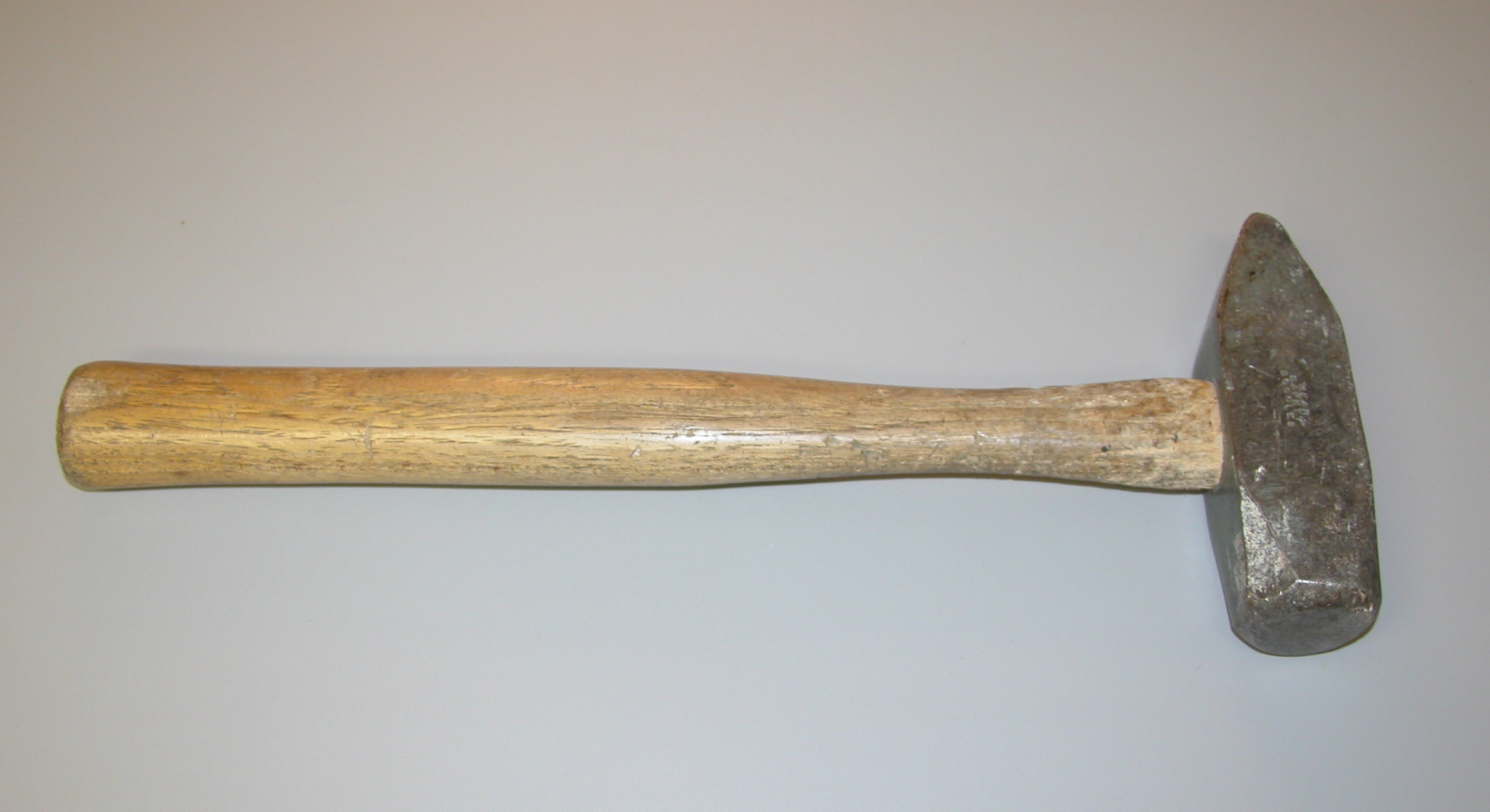 A hammer